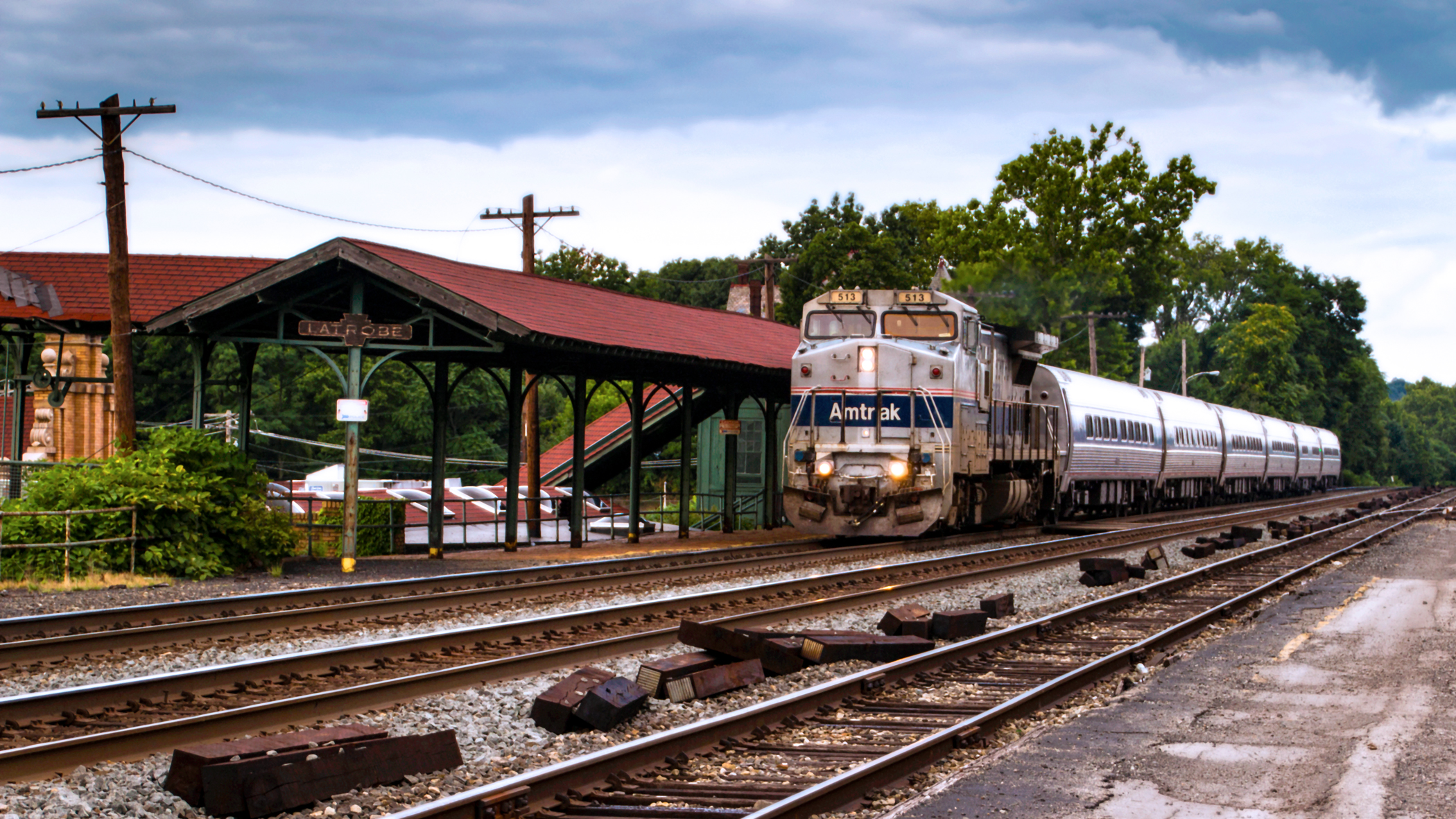 The Tuesday night Amtrak arrives in Latrobe to pick up a passenger or two.